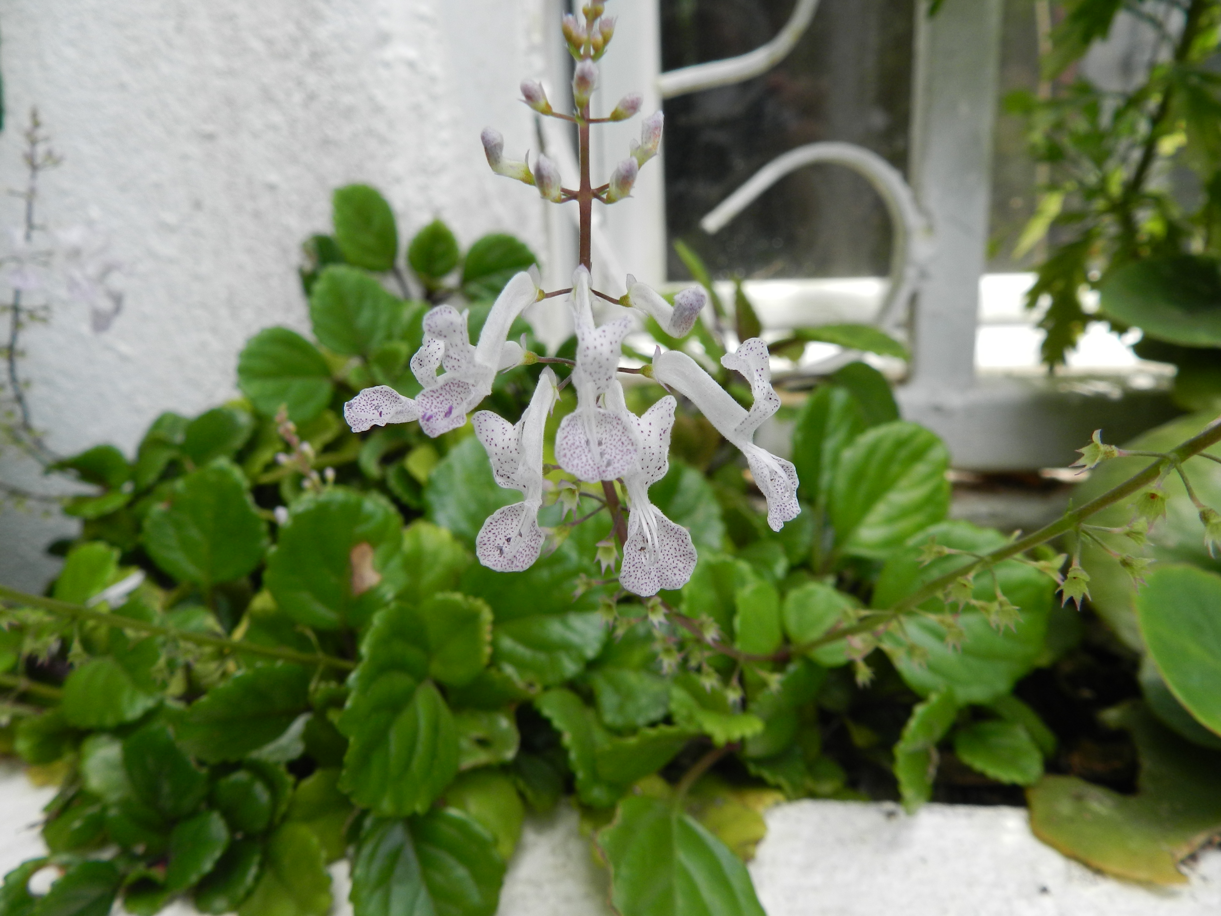 Flowers and leaves of Plectranthus verticillatus in El Crucero, Managua, Nicaragua